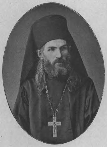 Alexiy (Vinogradov), russian sinologist